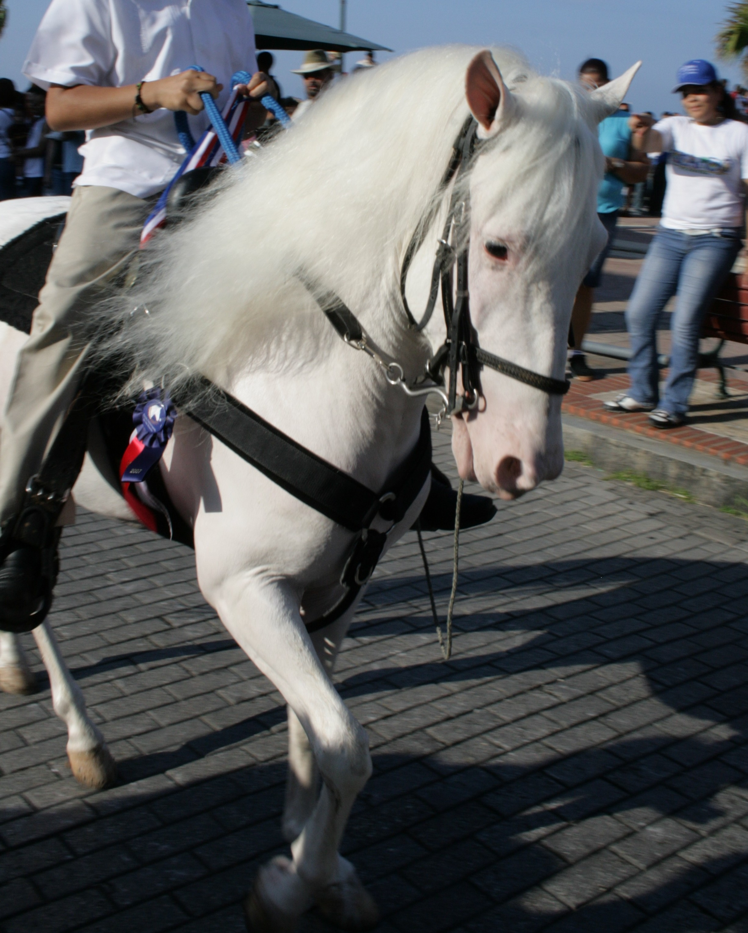 This white colored horse, with pink skin and dark eyes.